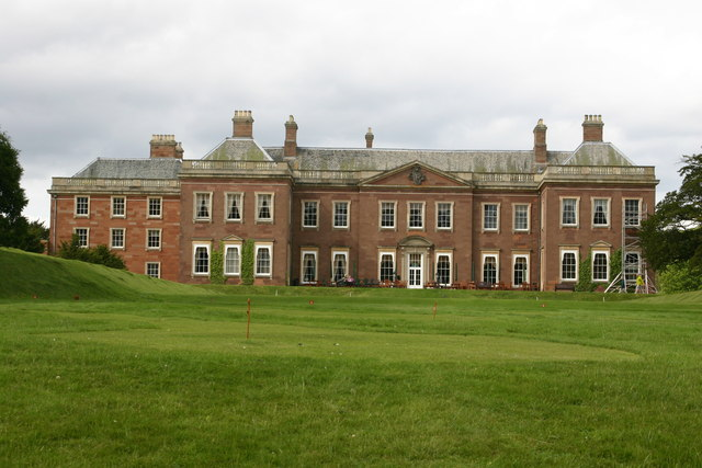 Holme Lacy House Hotel A Warner Holidays Hotel.